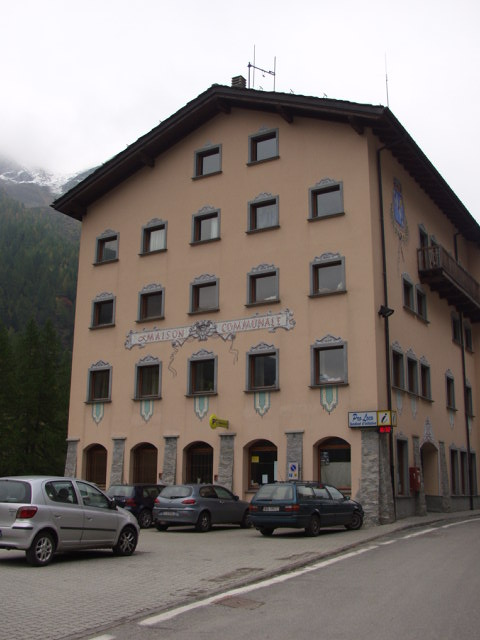 City hall in Valgrisenche (Aosta Valley, Italy)